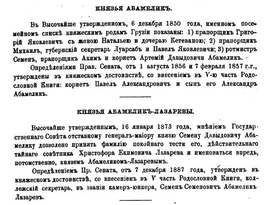 Georgian princely families in the Lists of the Titled Families and Persons of the Russian Empire, 1892.